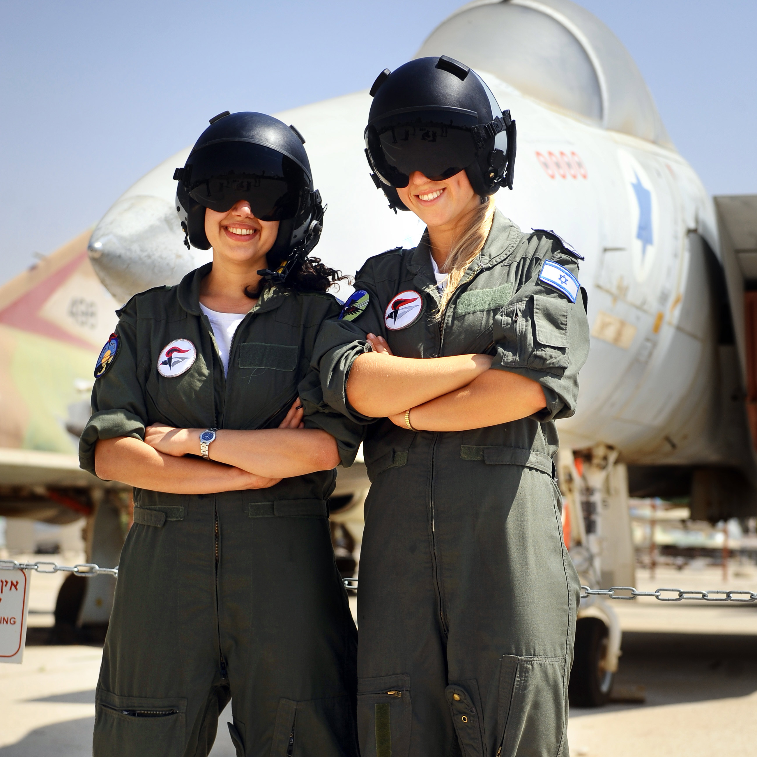 The Israel Defense Forces Facebook • blog • Twitter